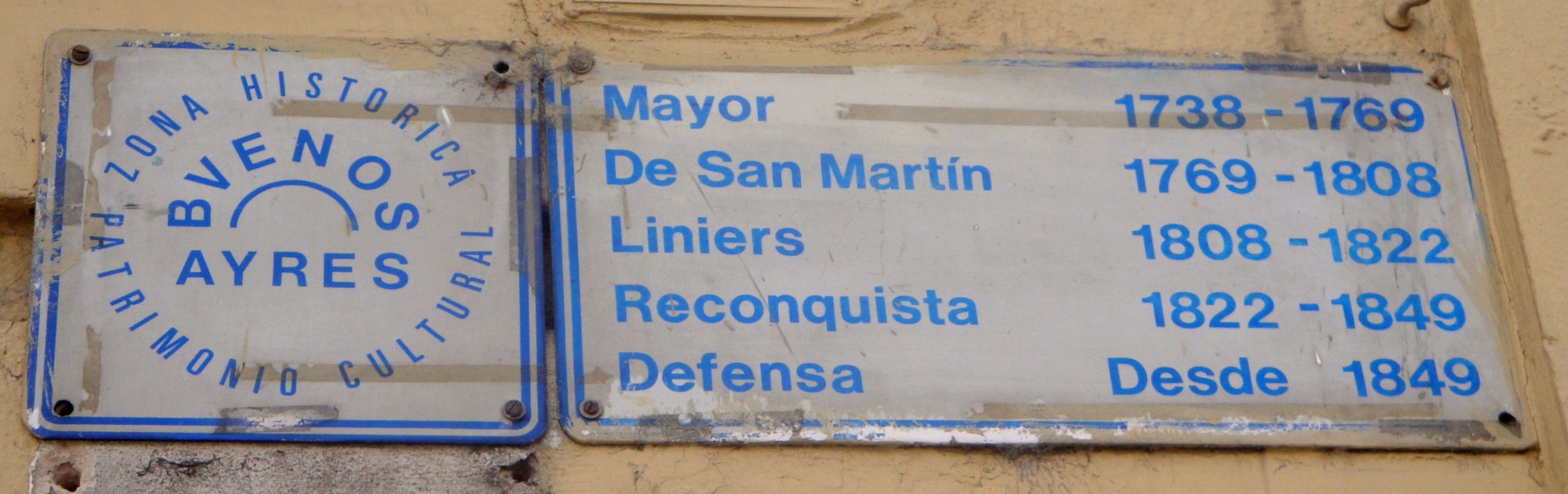 Sign indicating the different names that has taken Defensa Street (Buenos Aires) through the time.